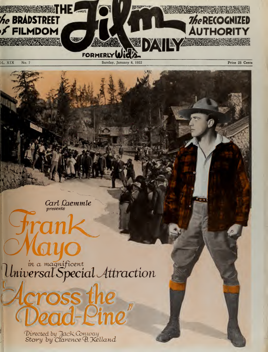 Frank Mayo in the American film Across the Dead-Line (1922), directed by Jack Conway, in Film Daily